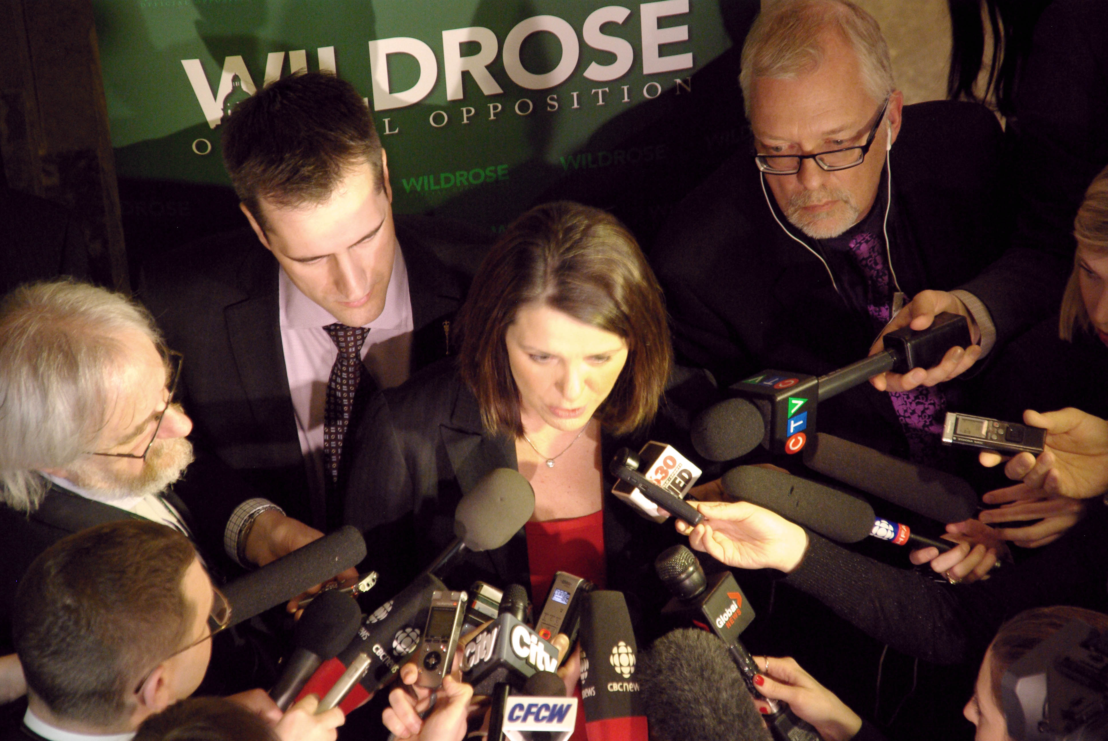 Danielle Smith answers questions from media after the release of the 2013 budget.